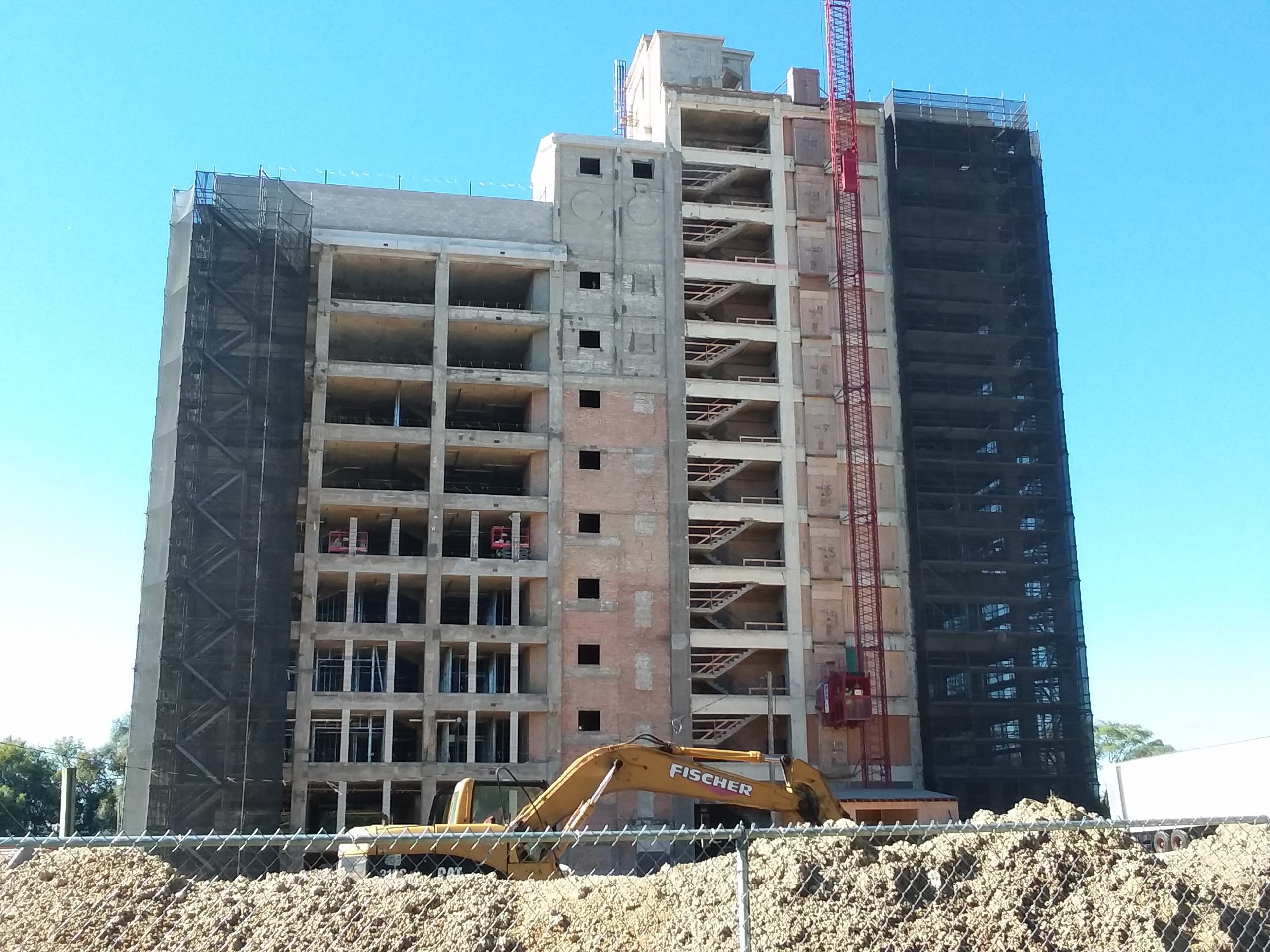 Ziock (Amerock) Building under renovation in downtown Rockford, IL.